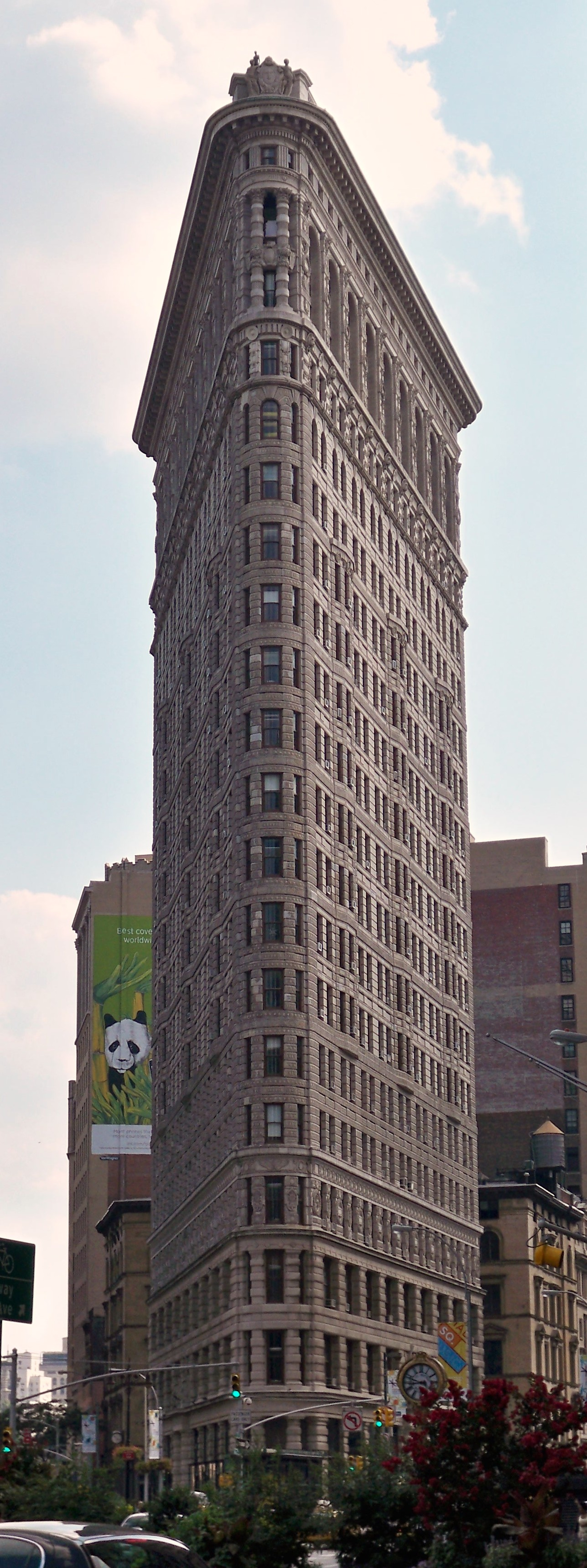 Flatiron Building at 23rd Street.